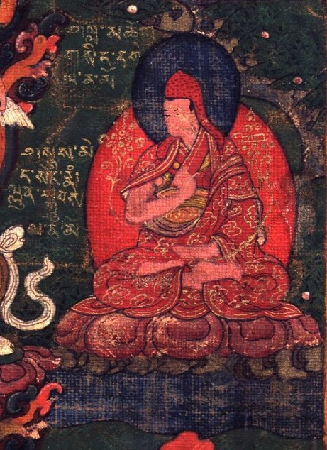 Kunga Sonam Lhundrub, b.1571 - d.1642, Fifteenth Ngor Khenchen